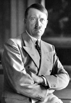 Obersalzberg, Berghof, Adolf Hitler in office sitting on his desk. Bavarian national library, Hoffmann phototheque, image number hoff-1956. Picture of 1936, published in IB in 1937, special issue titled : Adolf Hitler's Germany.